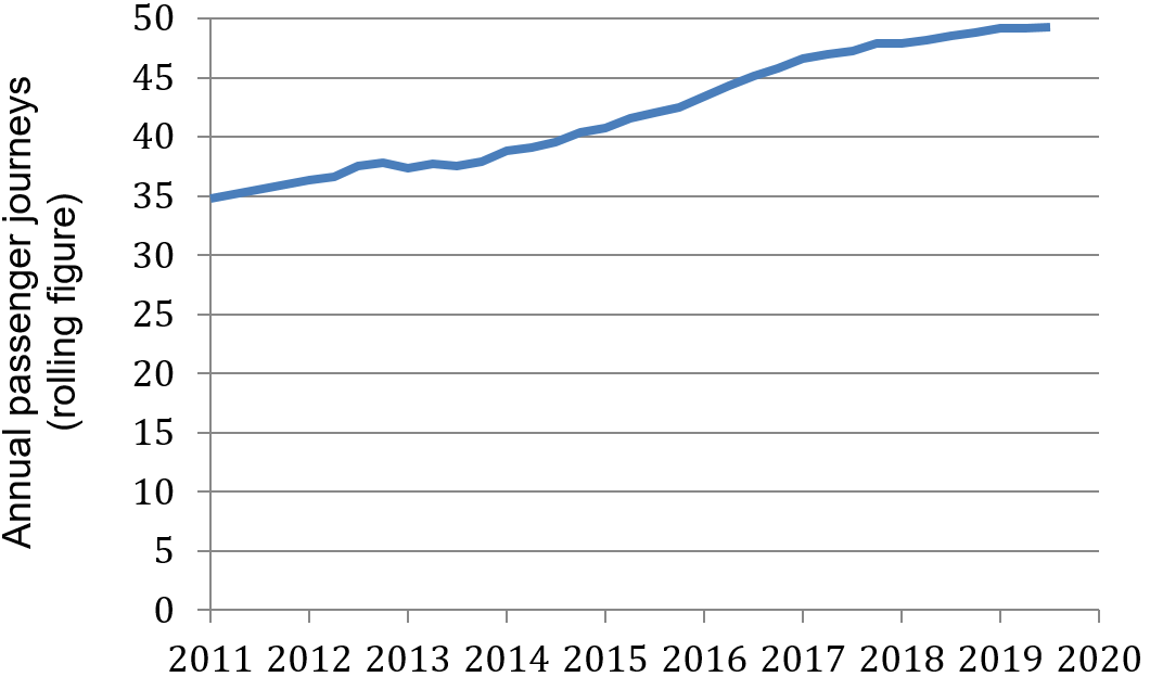 c2c passenger numbers 2011/12 Q1 - 2017/18 Q4 (rolling 12 month figure)[1]